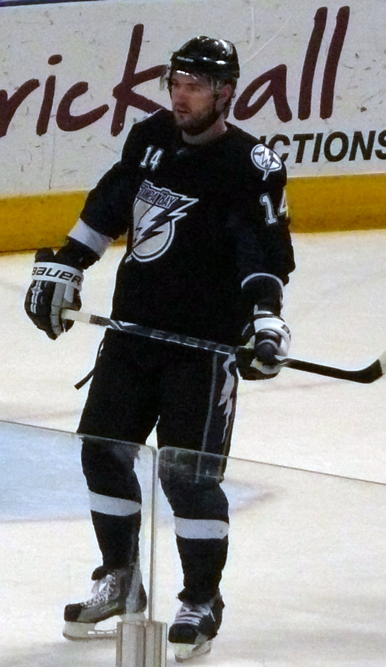 Andrej Meszaros of the Tampa Bay Lightning skates at home against the Carolina Hurricanes at the St Pete Times Forum, Tampa, FL on 3/23/2010.